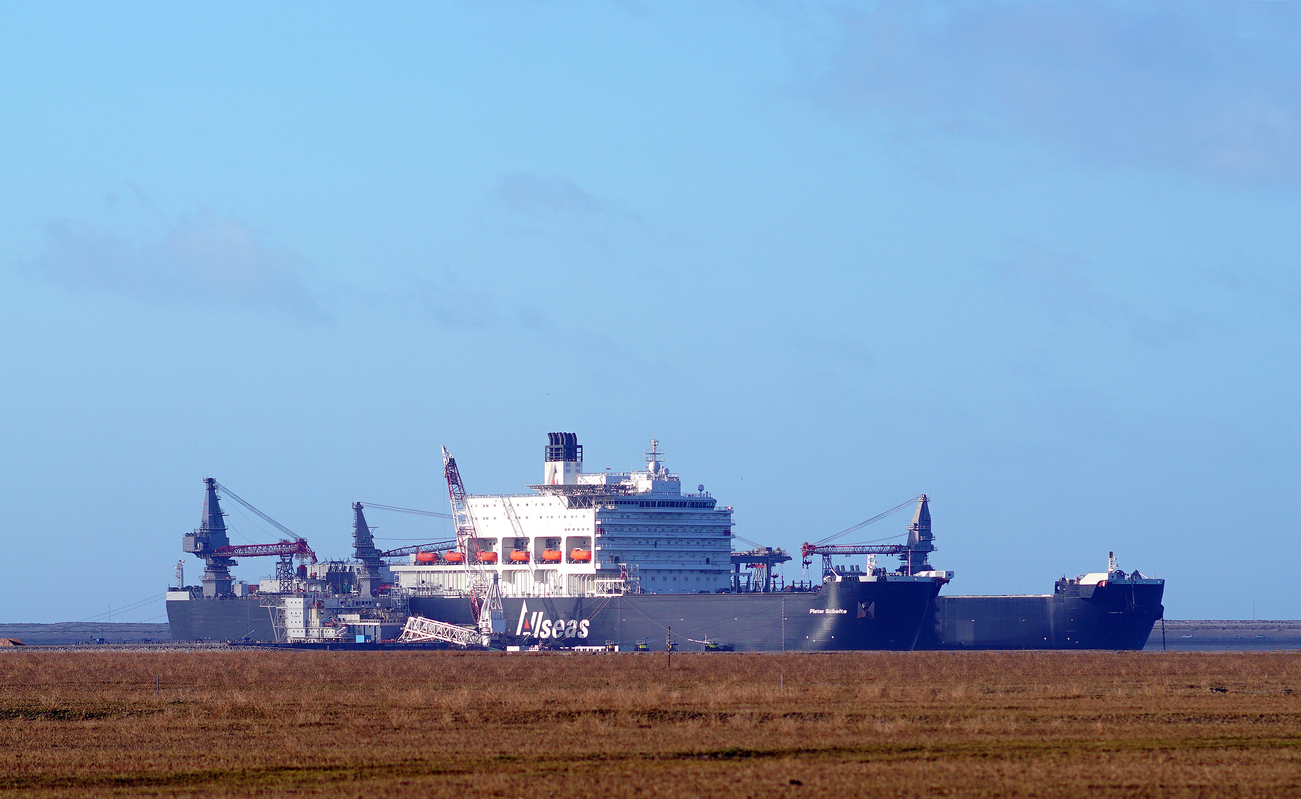 Crane ship Pieter Schelte, Maasvlakte